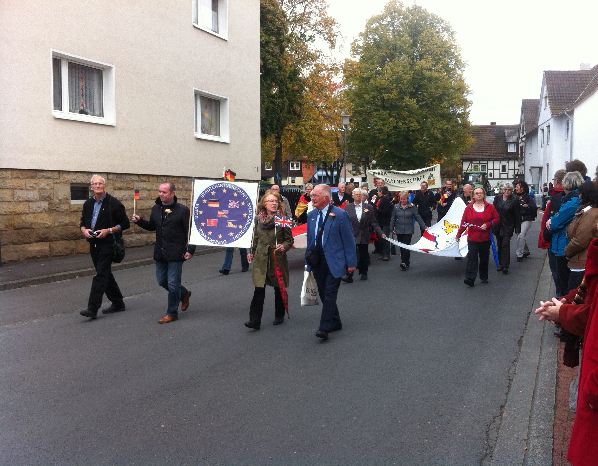 Town twining comitees of Knaresborough and Bebra celebrating Bebra Kirmes